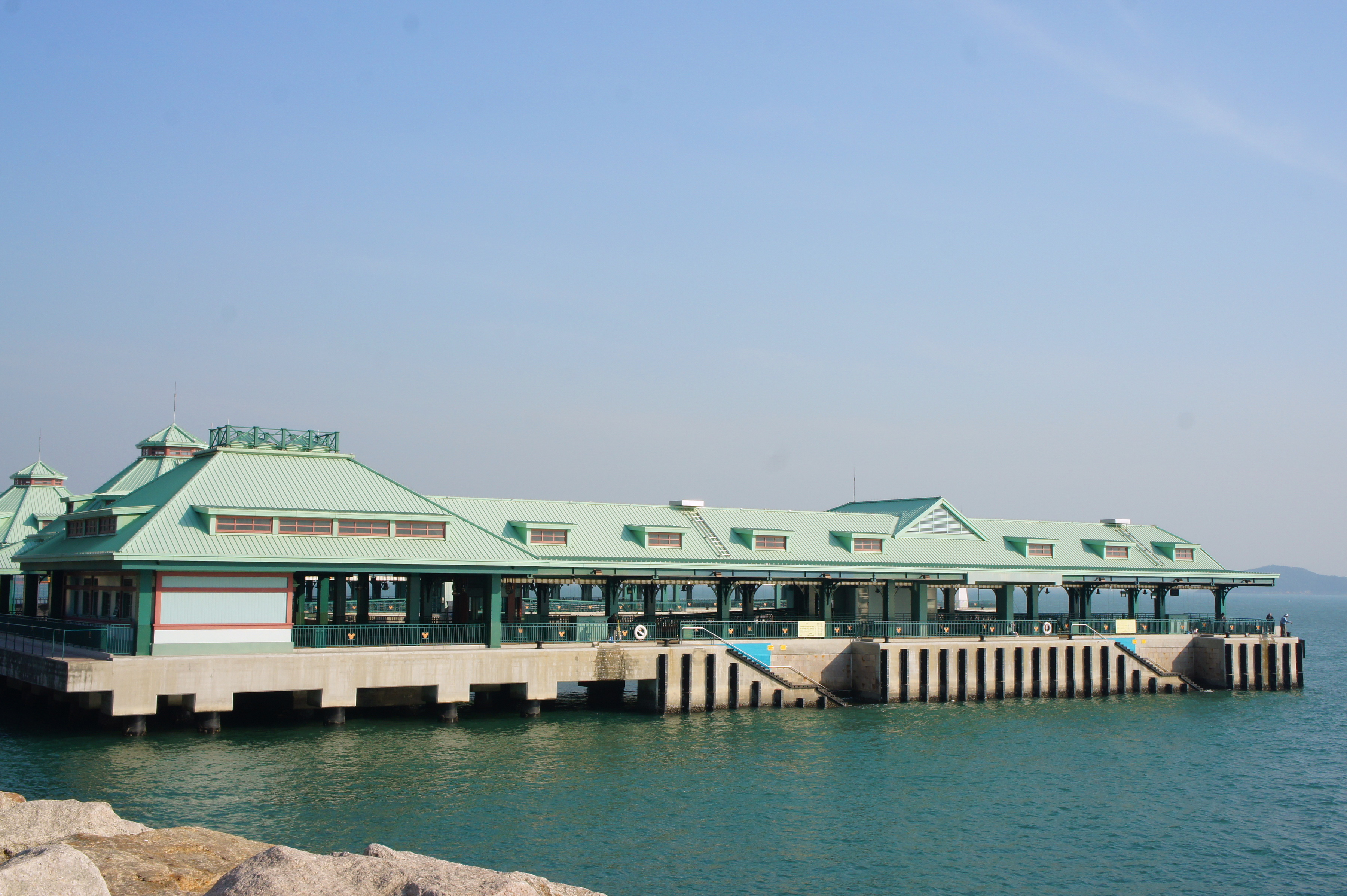 Disney Resort Pier, Hong Kong.